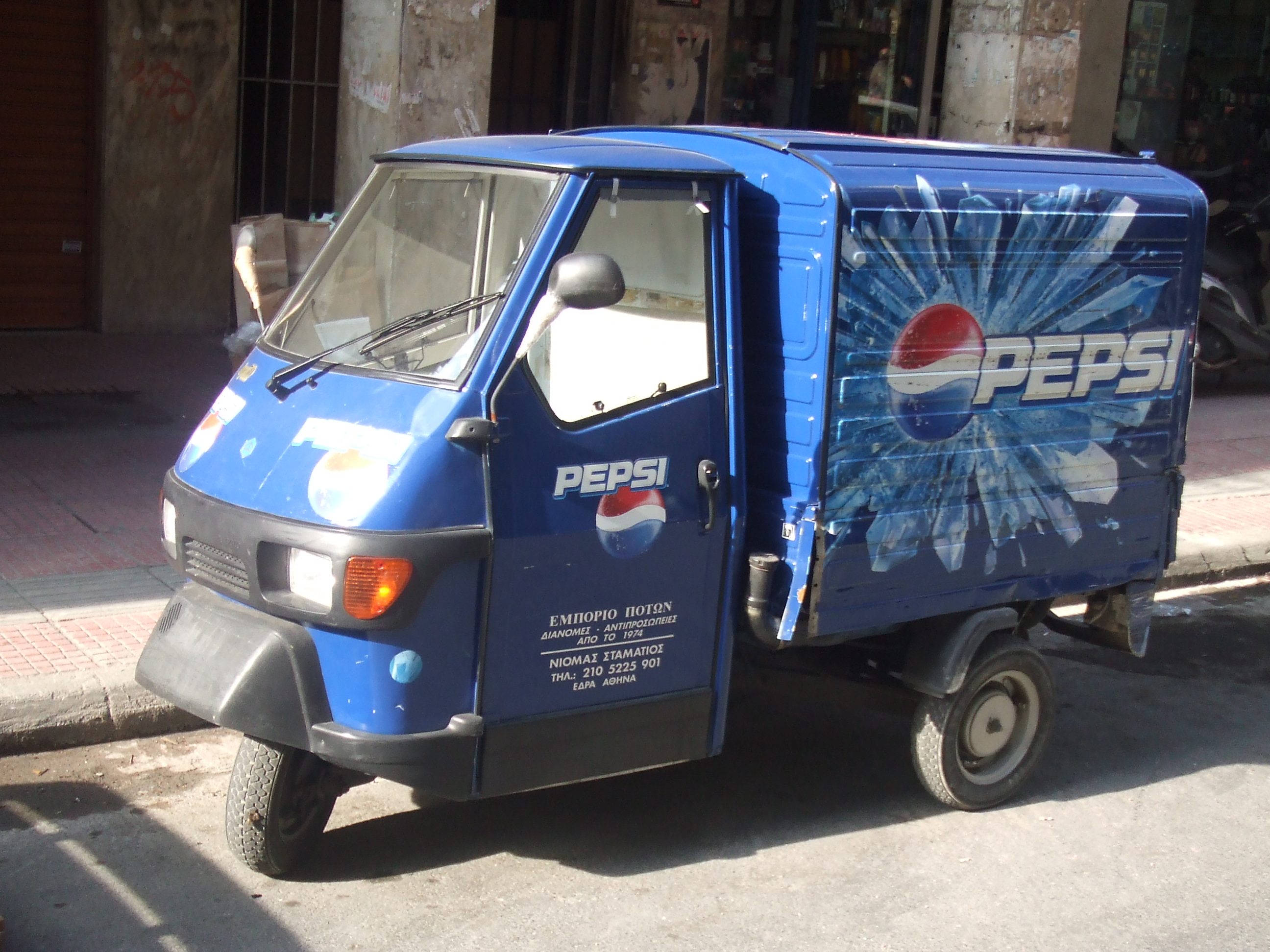 Piaggio Ape with Pepsi Co. advertisement in Athens